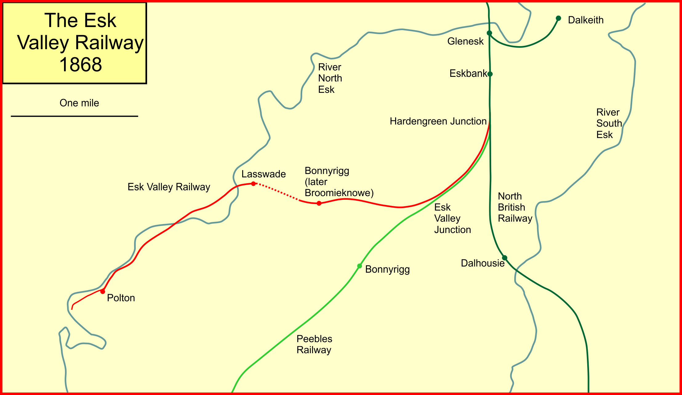 System map of the Esk Valley Railway, Scotland, in 1868